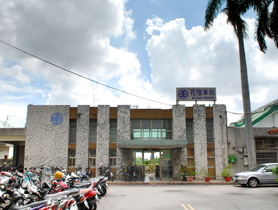 JhuiFen Station is a local train station of Taiwan's Western main rail line. It's the main station of HuaTan Township, ChangHua County.